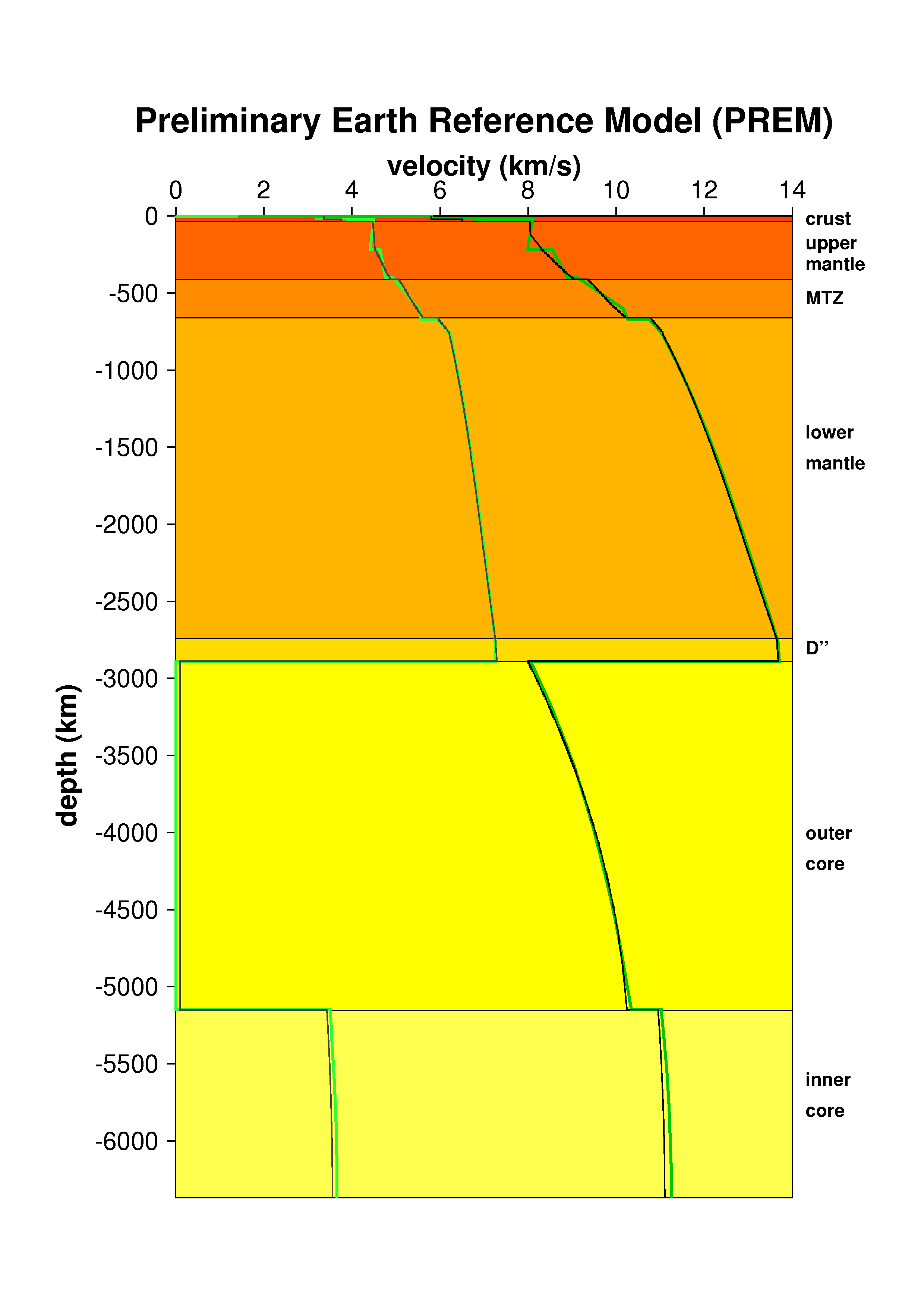 The Preliminary Earth Reference Model (PREM) (A. M. Dziewonski & D. L. Anderson, 1981) giving S and P wave velocities (light and dark green lines) in the earth's interior in comparison with the younger IASP91 model (thin grey and black lines)